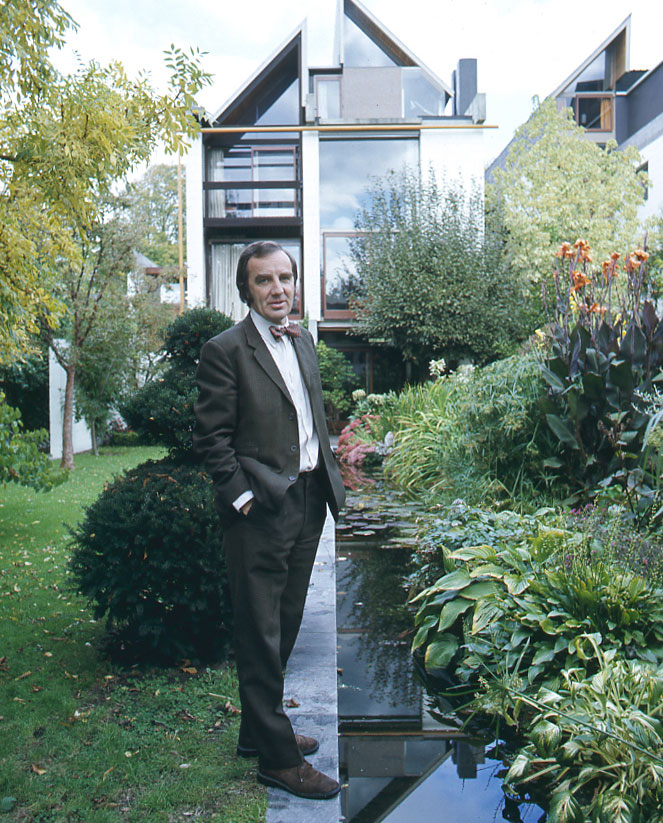 Miles Warren, modernist architect of New Zealand, with house and garden.